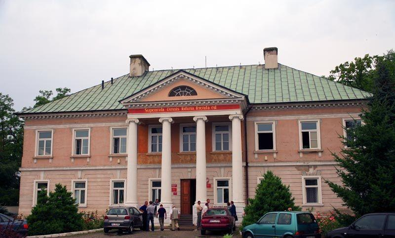 Palace in Stary Gostków, Poland Poland by Ewa and Maek Wojciechowsy